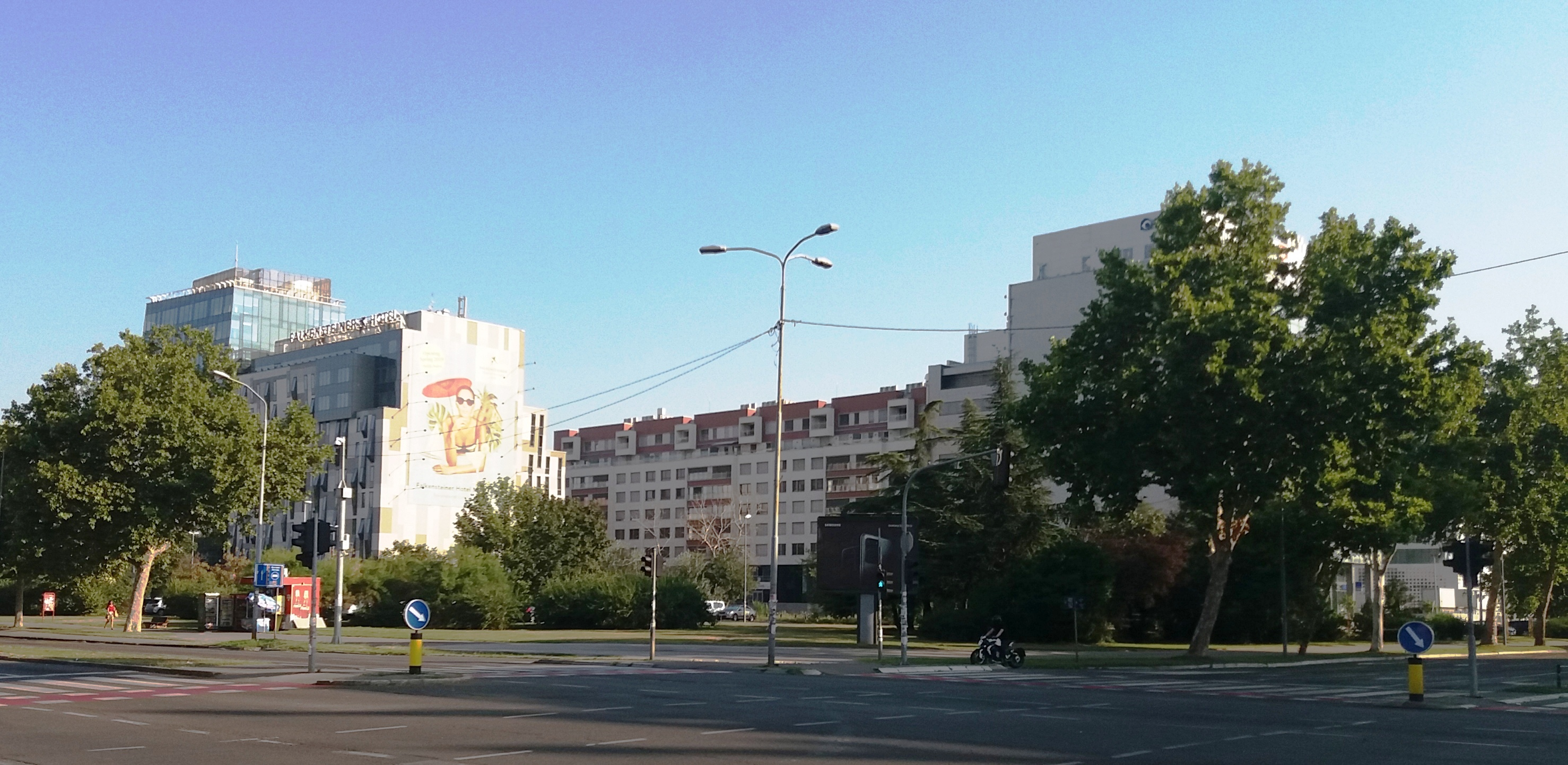 Business and residential buildings, Falkensteiner Hotel Belgrade, Danube Business Center, Block 11a, New Belgrade